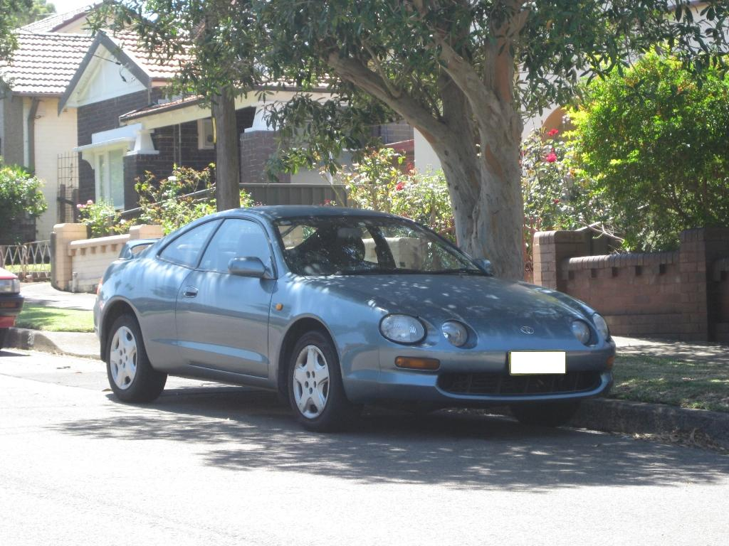 Toyota Celica 2.2 SX (ST204R-BLMSKQ) shown in Sea Spray Pearl (colour code 753).